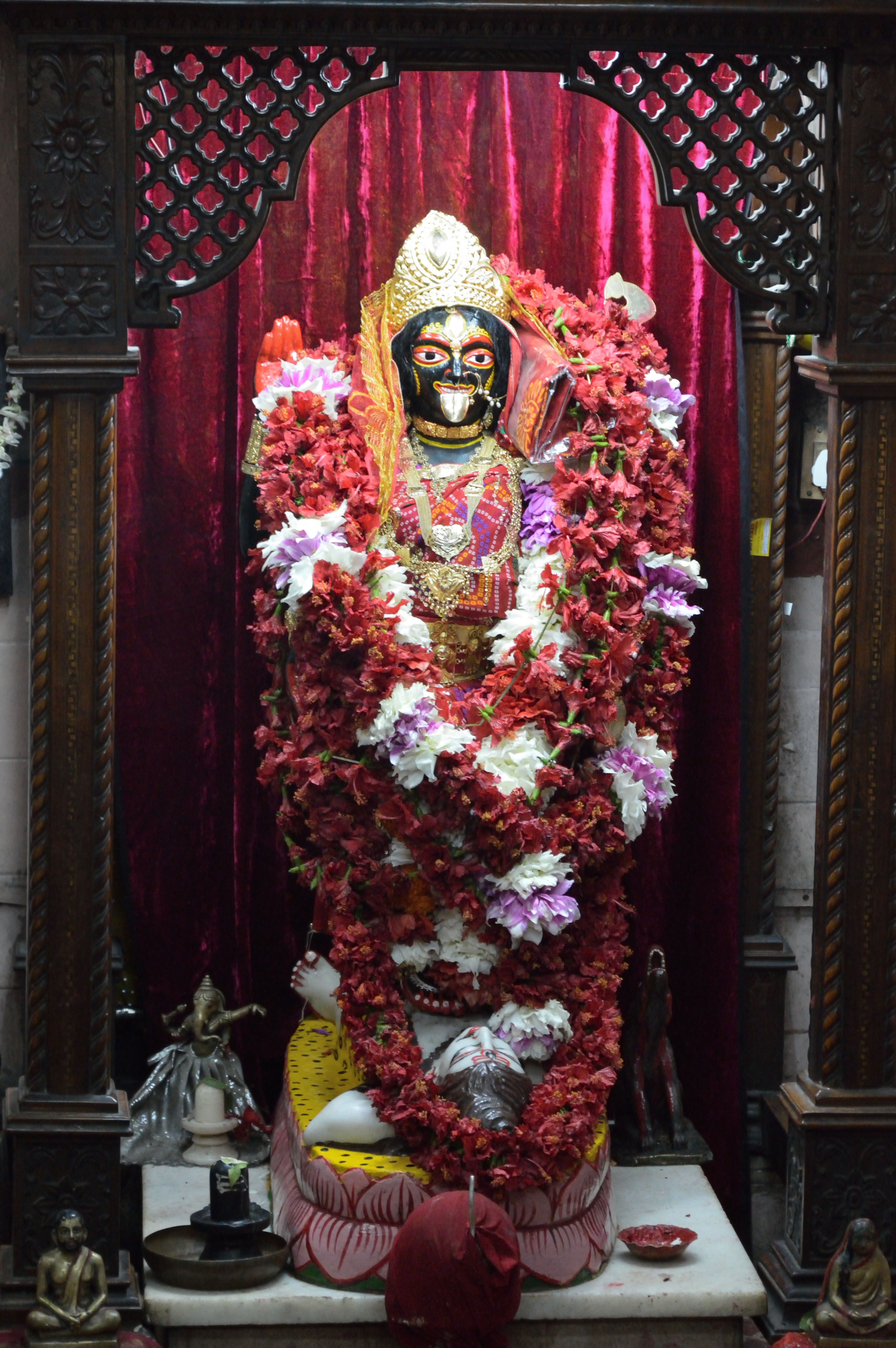 Photographed in Kolkata.